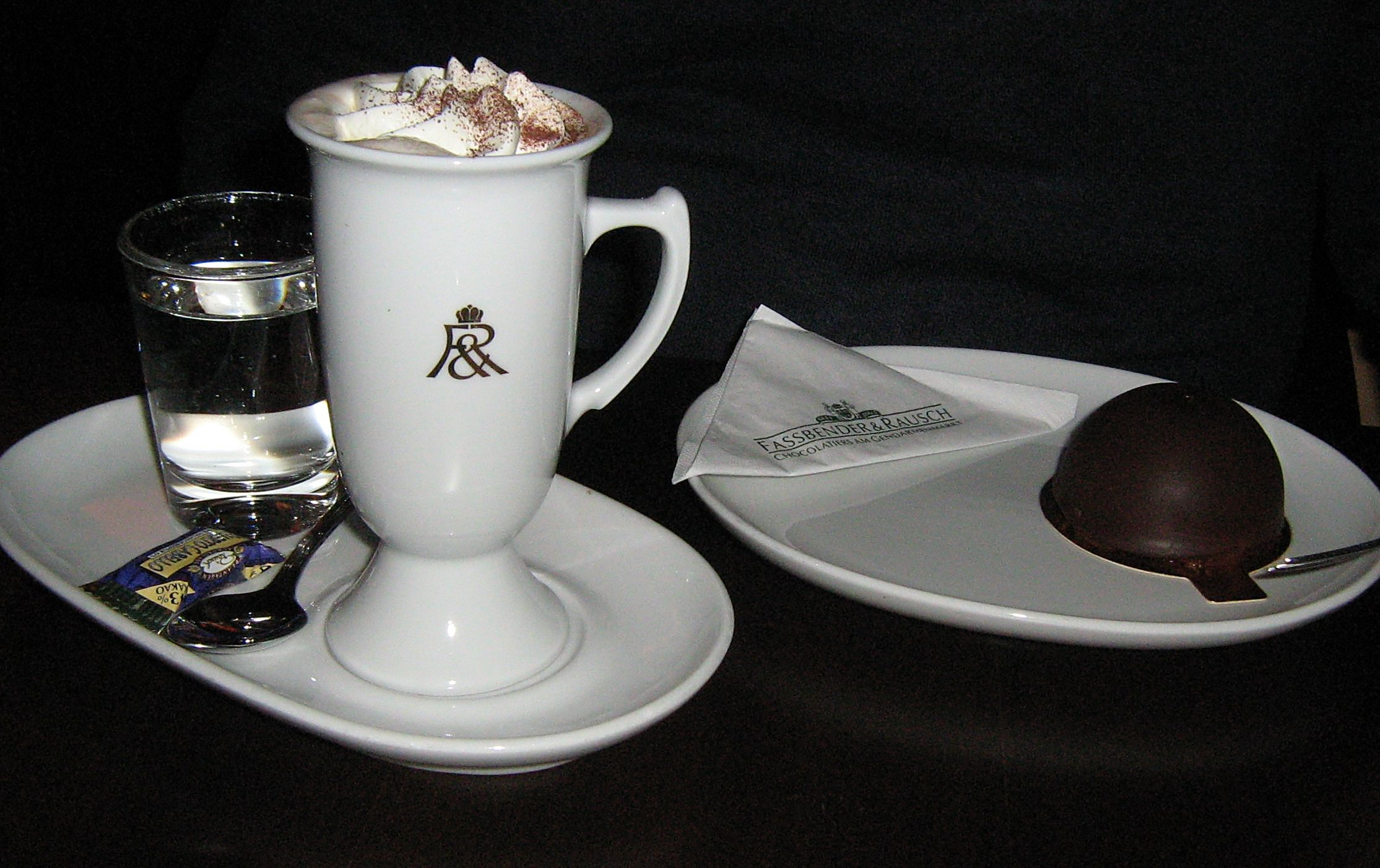 Hot chocolate at the 'Fassbender & Rausch Chokolatiers' on Gendarmenmarkt in Berlin. December 2011.